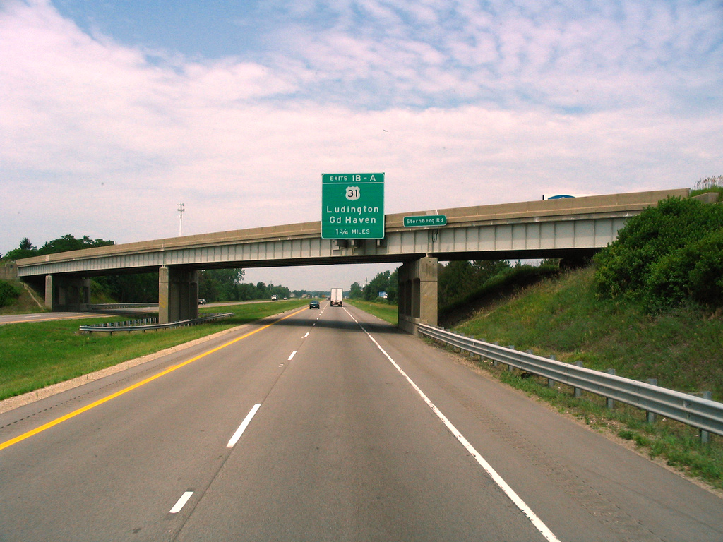 Along Interstate 96, this is the first advance sign for US 31, 1.75 miles (2.82 km) out, attached to the Sternberg Road overpass.